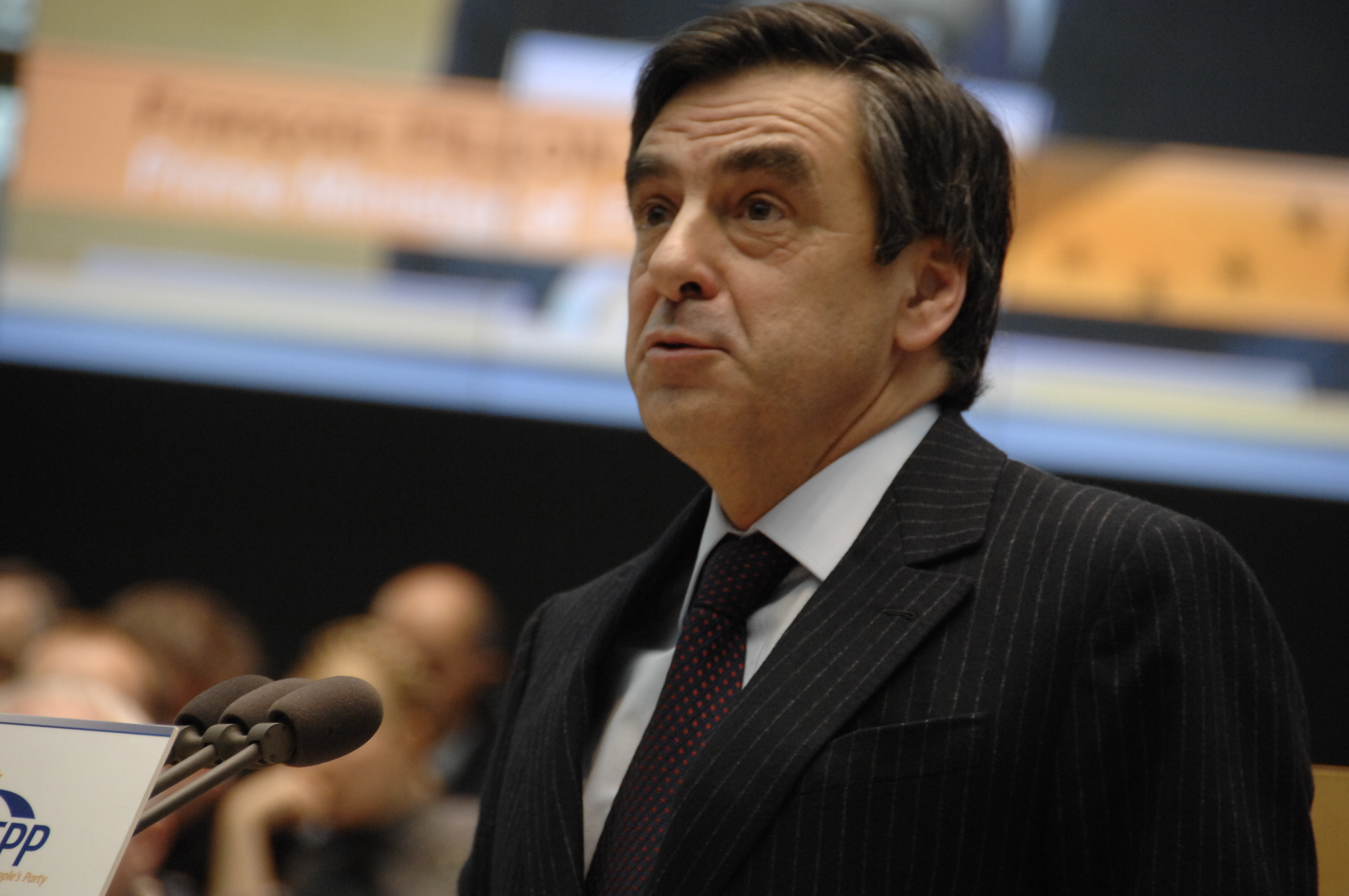 EPP Congress Bonn